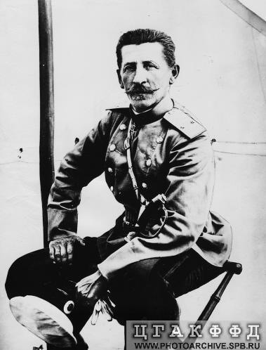 Velichko, Konstanin Ivanovich